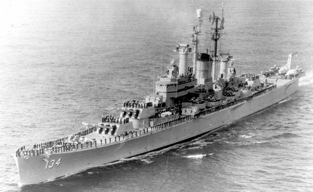 USS Des Moines (CA-134) The crew practice manning the rail on 30 November 1959 for an upcoming visit by President Eisenhower. Note that there are men even on top of the Gun Directors.